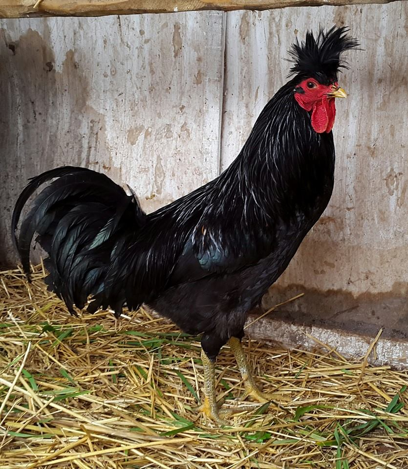 Kosovo Crower rooster.